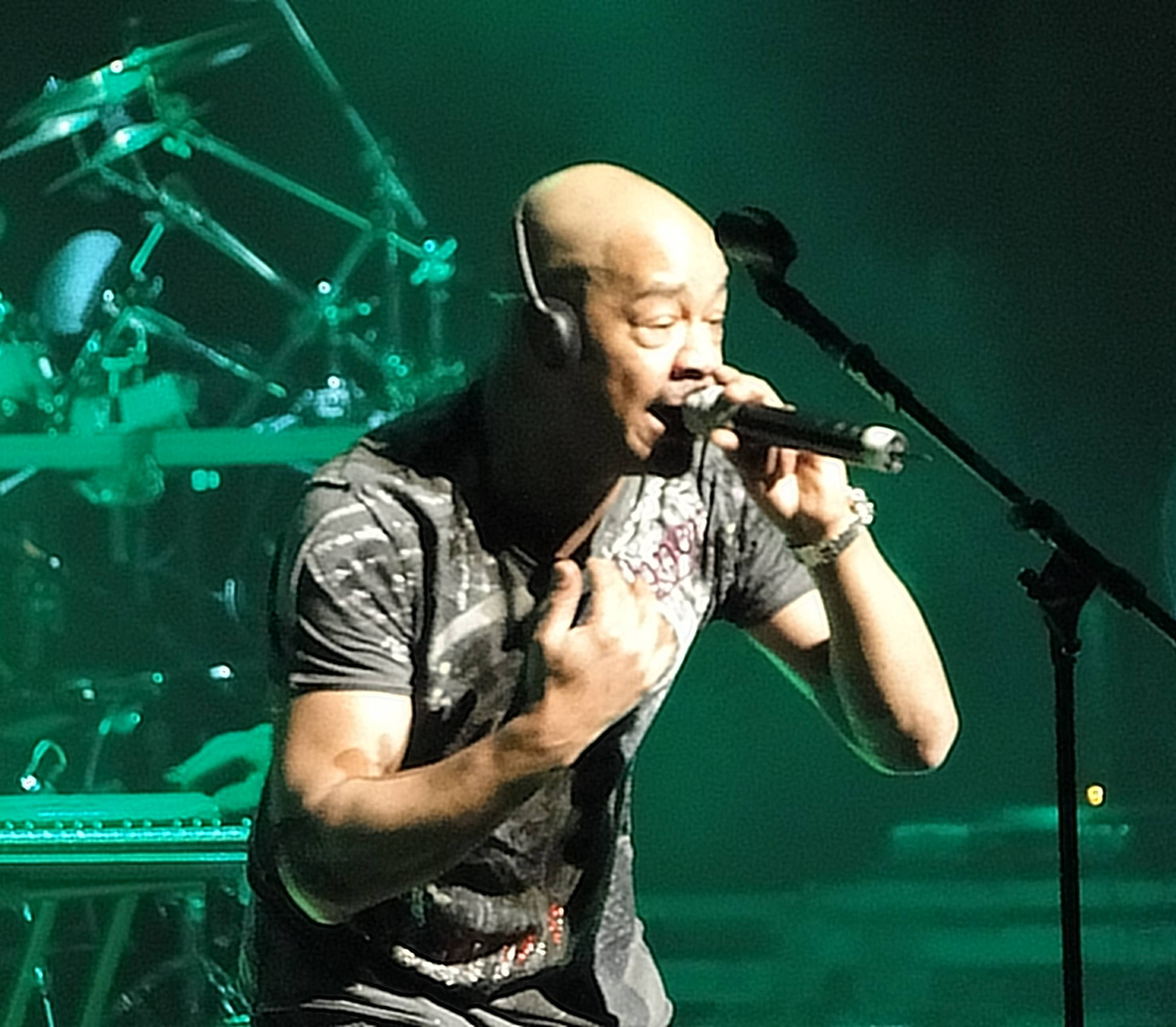 Earl Falconer performing with UB40 at Birmingham Symphony Hall, October 2010.